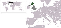 Location map for Scotland